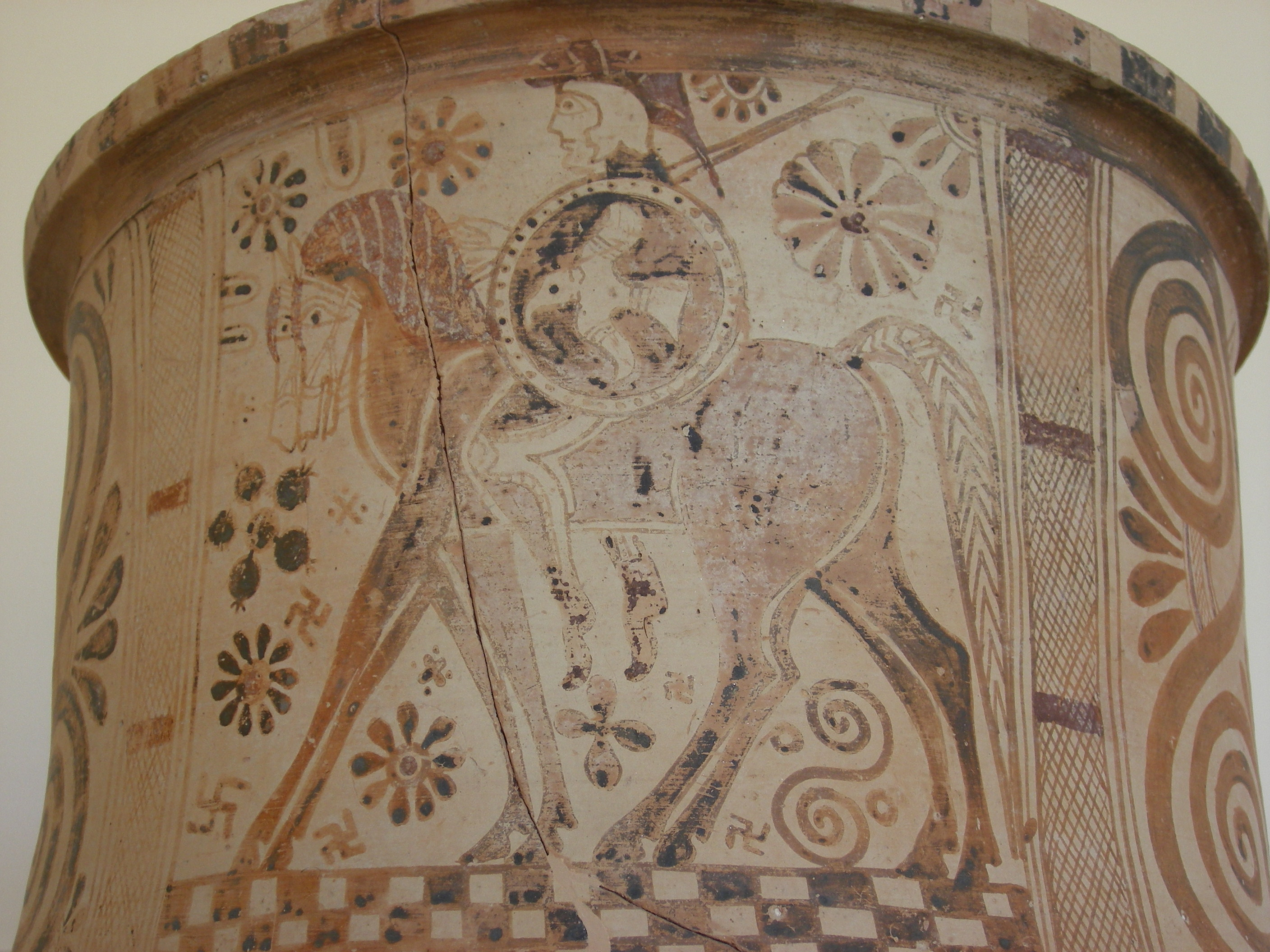 "Melian amphora" with the judgement of Paris (belly) and rider (neck).Neck: rider.